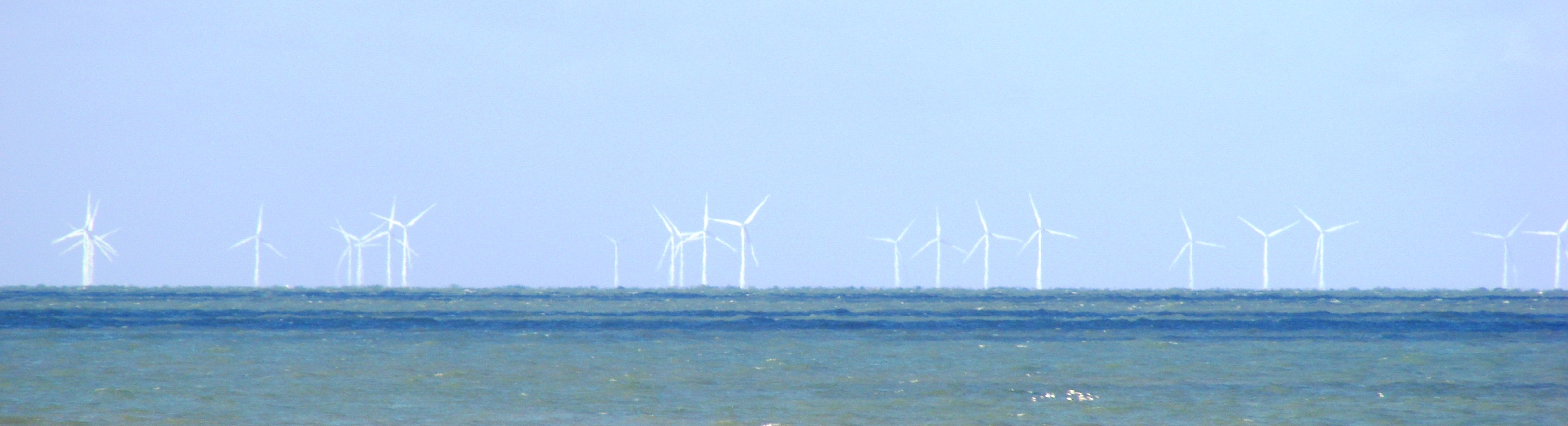 Thanet Offshore Wind Project - Taken from Margate beach